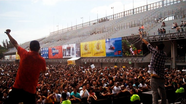 Bocafloja, picture taken in Mexico City 2010.